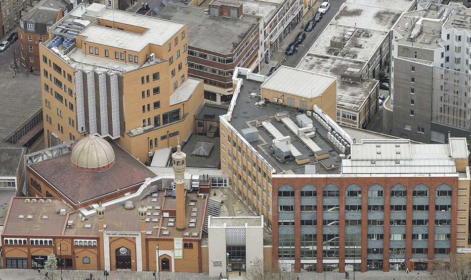 Aerial view of East London Mosque complex, including the London Muslim Centre and Maryam Centre